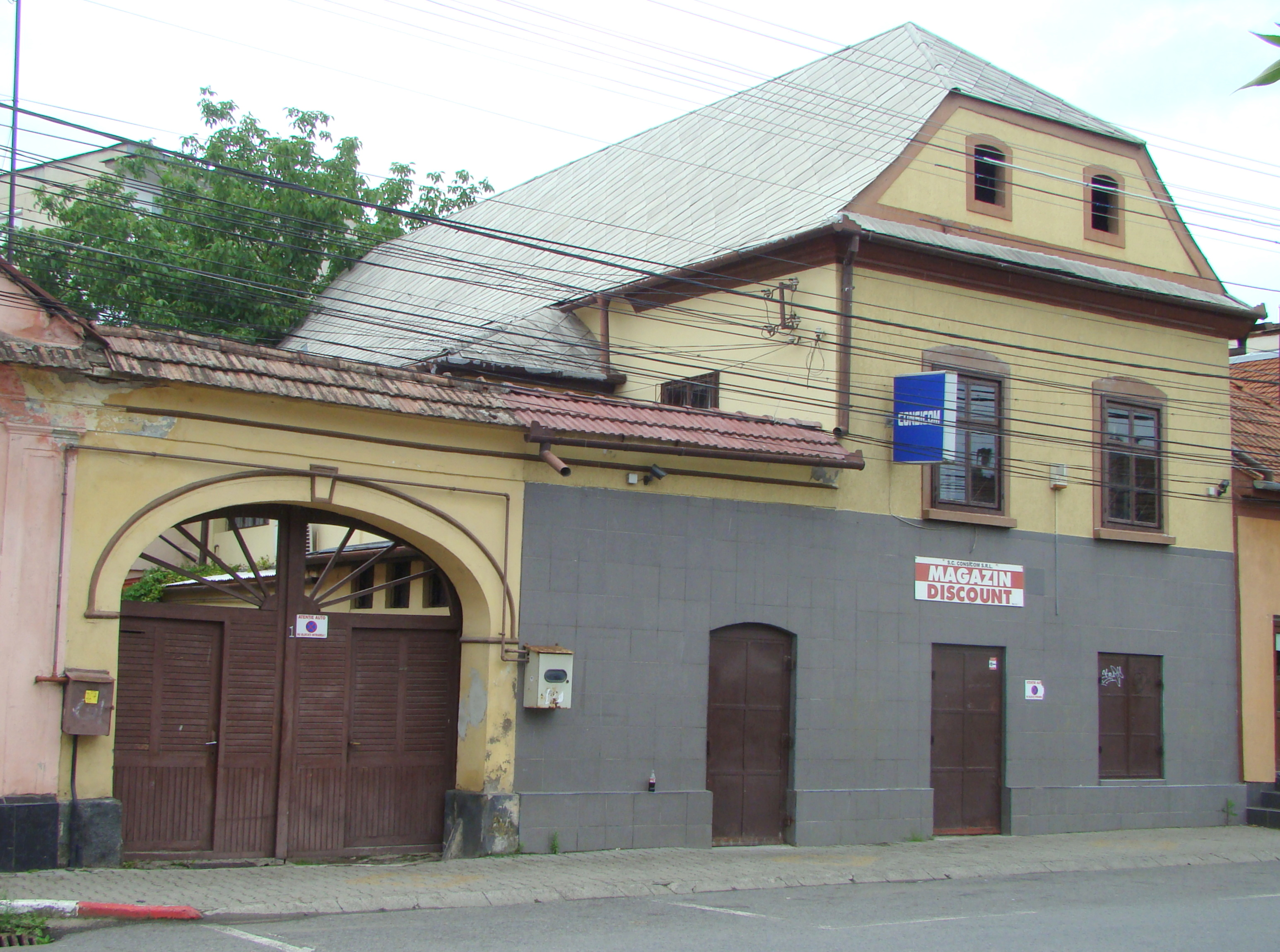 House, historic monument, in Reghin, Mihai Eminescu street, nr.1